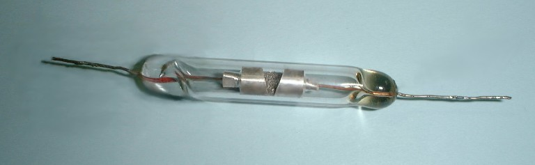 A Branly coherer, 1902, an early primitive radio wave detector invented by Edouard Branly in 1890 and used in the first radio receivers until about 1906. This version, developed by Guglielmo Marconi, consists of an evacuated glass tube with metal filings between two metal electrodes. Radio waves from the antenna, applied across the electrodes, cause the filings to cohere, reducing the resistance of the device. This turns on a DC circuit attached to the electrodes, powered by a battery, that makes a "click" sound in earphones or a mark on a paper tape, to record the Morse code signal. The slanted faces of the electrodes allowed the gap between them, and thus the sensitivity of the detector, to be adjusted by rotating the tube.